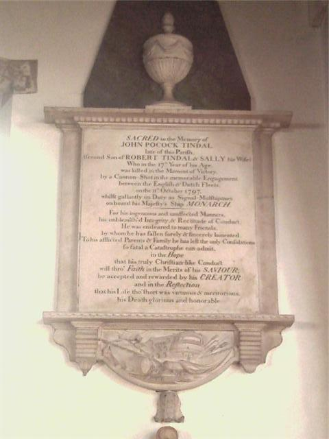 18th Century memorial to Midshipman John Pocock Tindal, RN, brother of Lord Chief Justice Sir Nicolas Tindal, at Chelmsford Cathedral